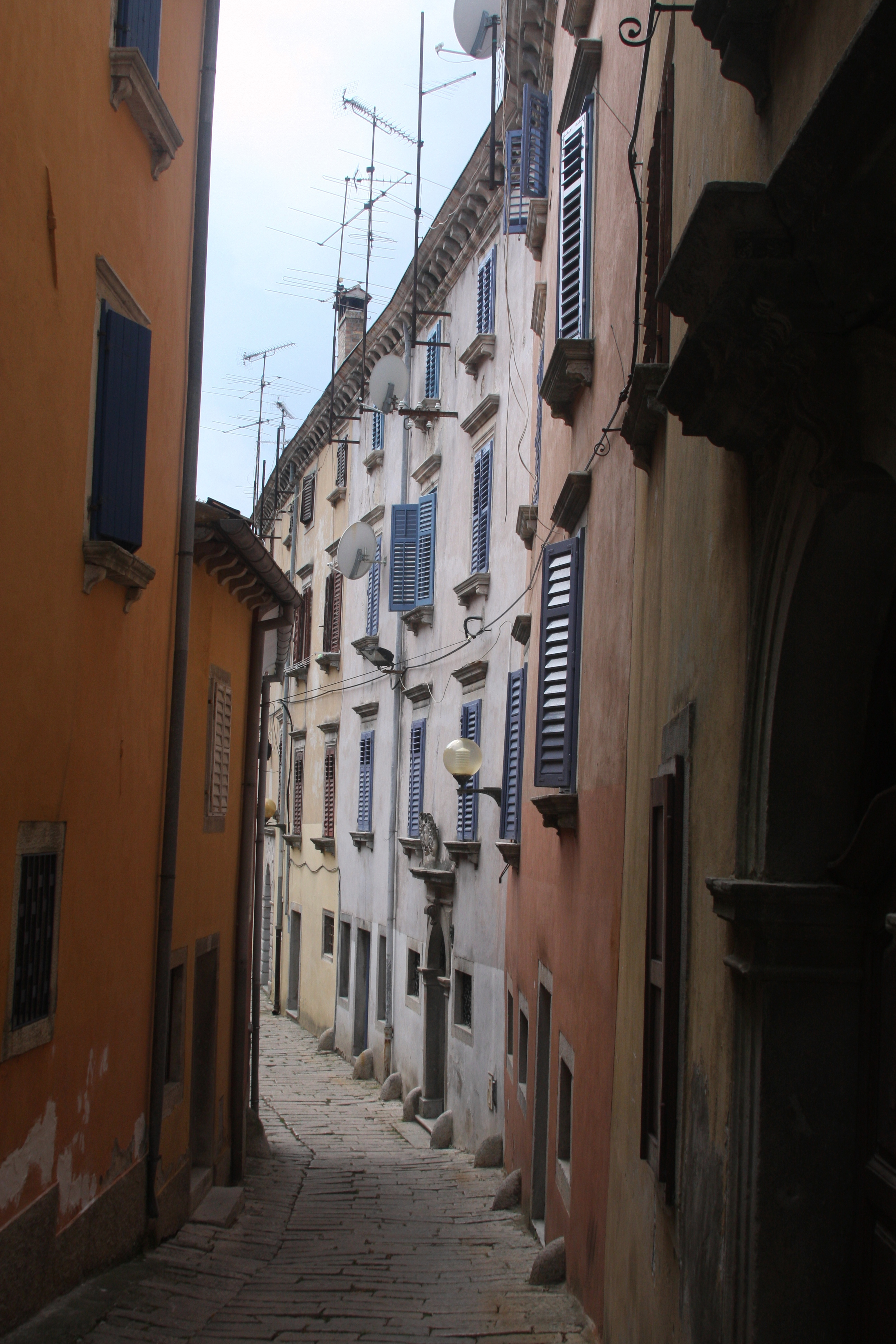 Image from the city of Labin in Istra, Croatia.